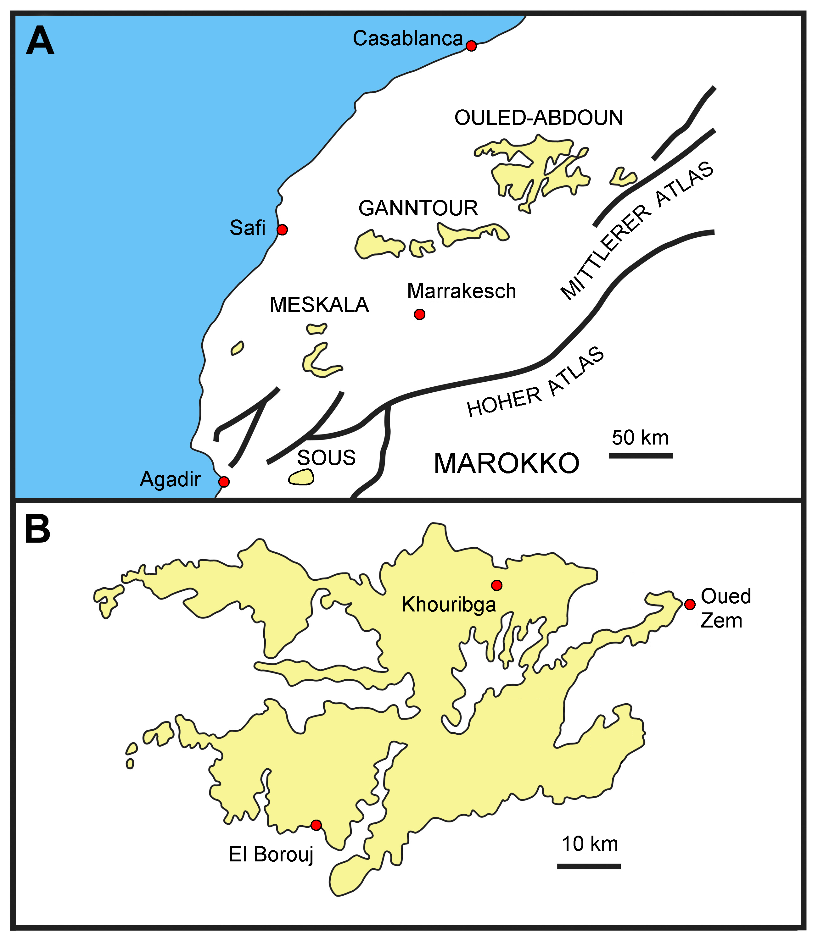 Phosphate basins of Morocco, Original by Bardet et al. 2013, some changes and German translation